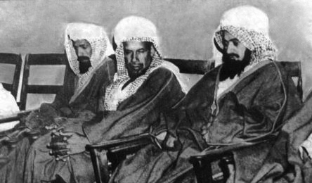 Nafi 'ibn Fadhliah (left) from the Harb tribe, Sulayman ibn al-Jaba'a (center) from Mutair, and Majid ibn Khathayla (right) from Otaiba.